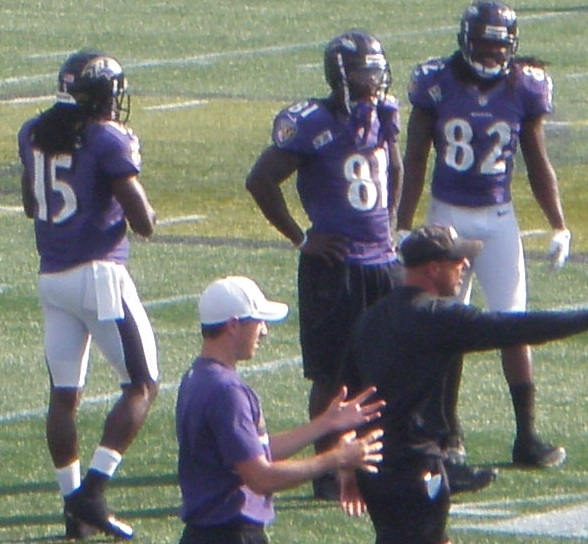 LaQuan Williams, Anquan Boldin, and Torrey at Navy–Marine Corps Memorial Stadium at Baltimore Ravens practice in August 2012.